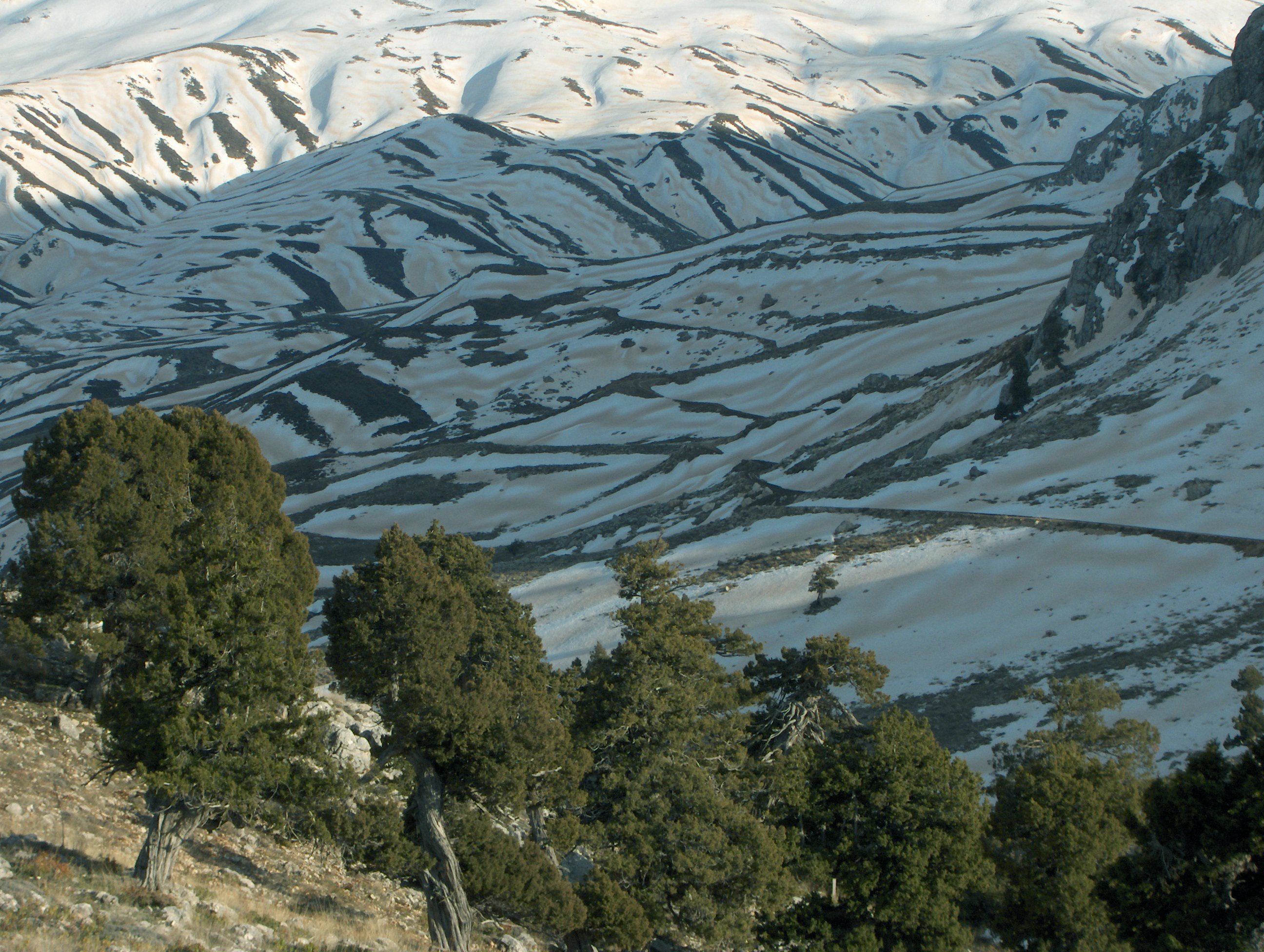 Juniperus excelsa, mountains near Antalya, Turkey.